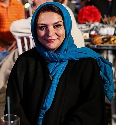 National Day of Cinema celebrations